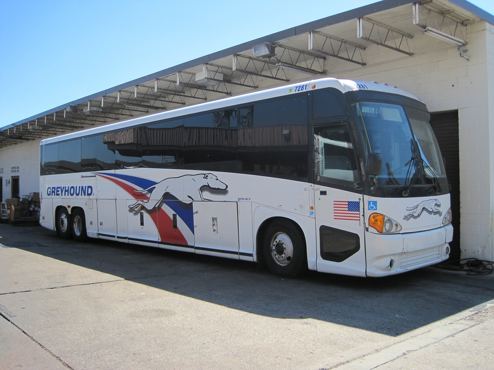 Greyhound station on Union Avenue in downtown Memphis, Tennessee Bus